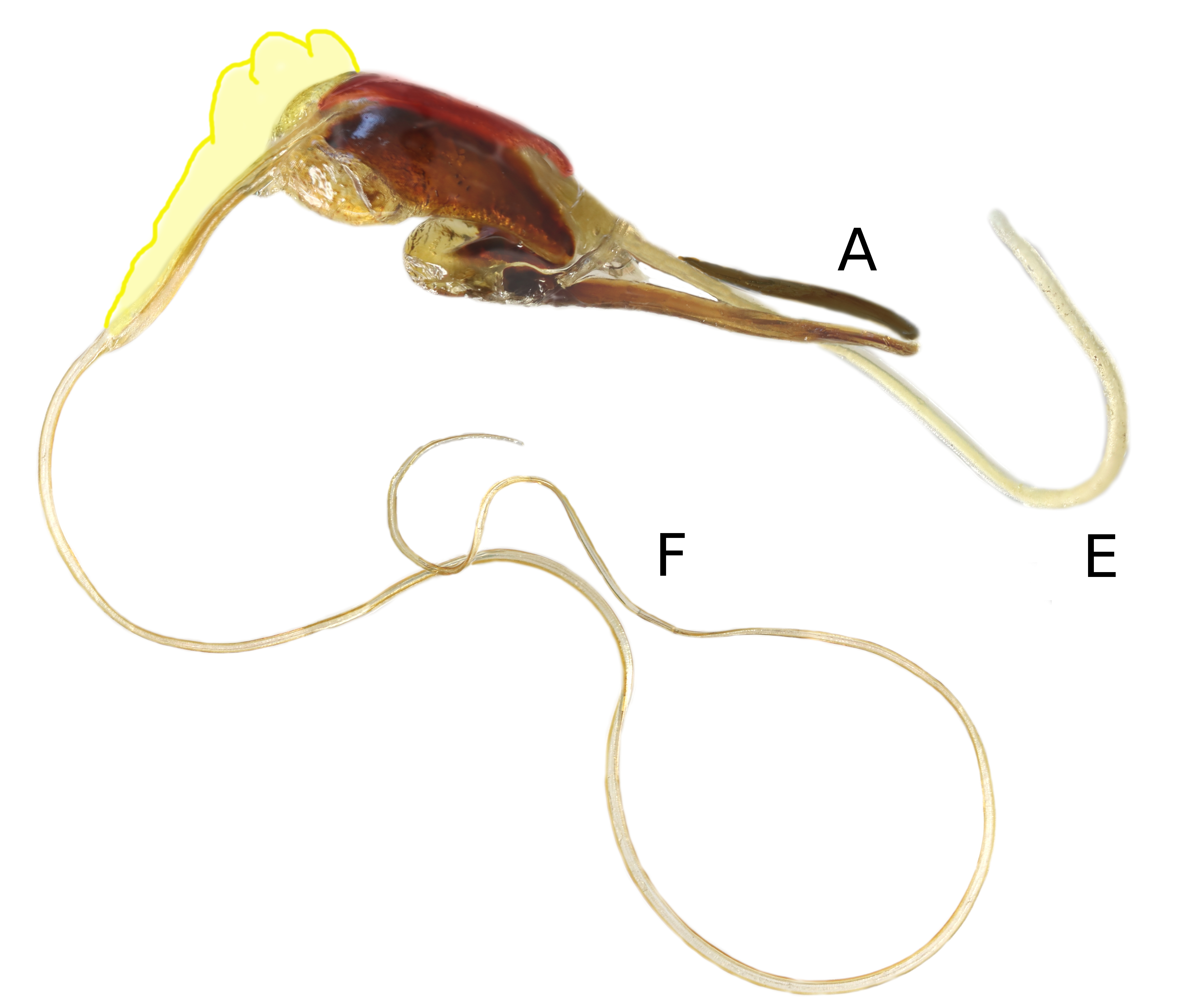 Photo of penis (Aedeagus after Snodgrass, median lobe of Aedeagus after Sharp/Muir) of Lucanus cervus photo from side-above, right side partly couloured; black: Apodem (does not belong to the penis in the strict sense) red: sclerotisized part, yellow: extended internal sac in its extension during copulation corresponding to Sharp/Muir A: apodem (median strut after Sharp/Muir) E: ejaculatory duct F: flagellum